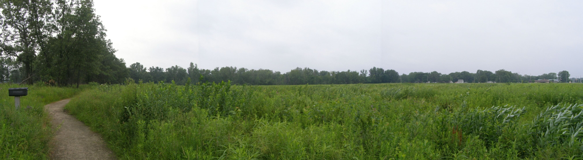 Hoosier Prairie, restoration field, Griffith, Indiana